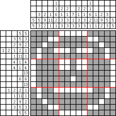 Based on Image:Paint by Number Example.png. This image is used on the paint by number example description page.